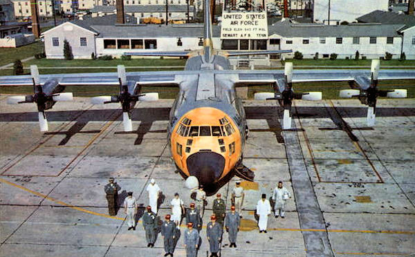 Sewart Air Force Base Postcard - C-130-1960s